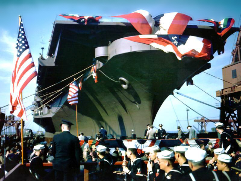 USS Midway (CVB-41) ready for christening at the Newport News Shipbuilding and Drydock Company, Newport News, Va., 20 March 1945